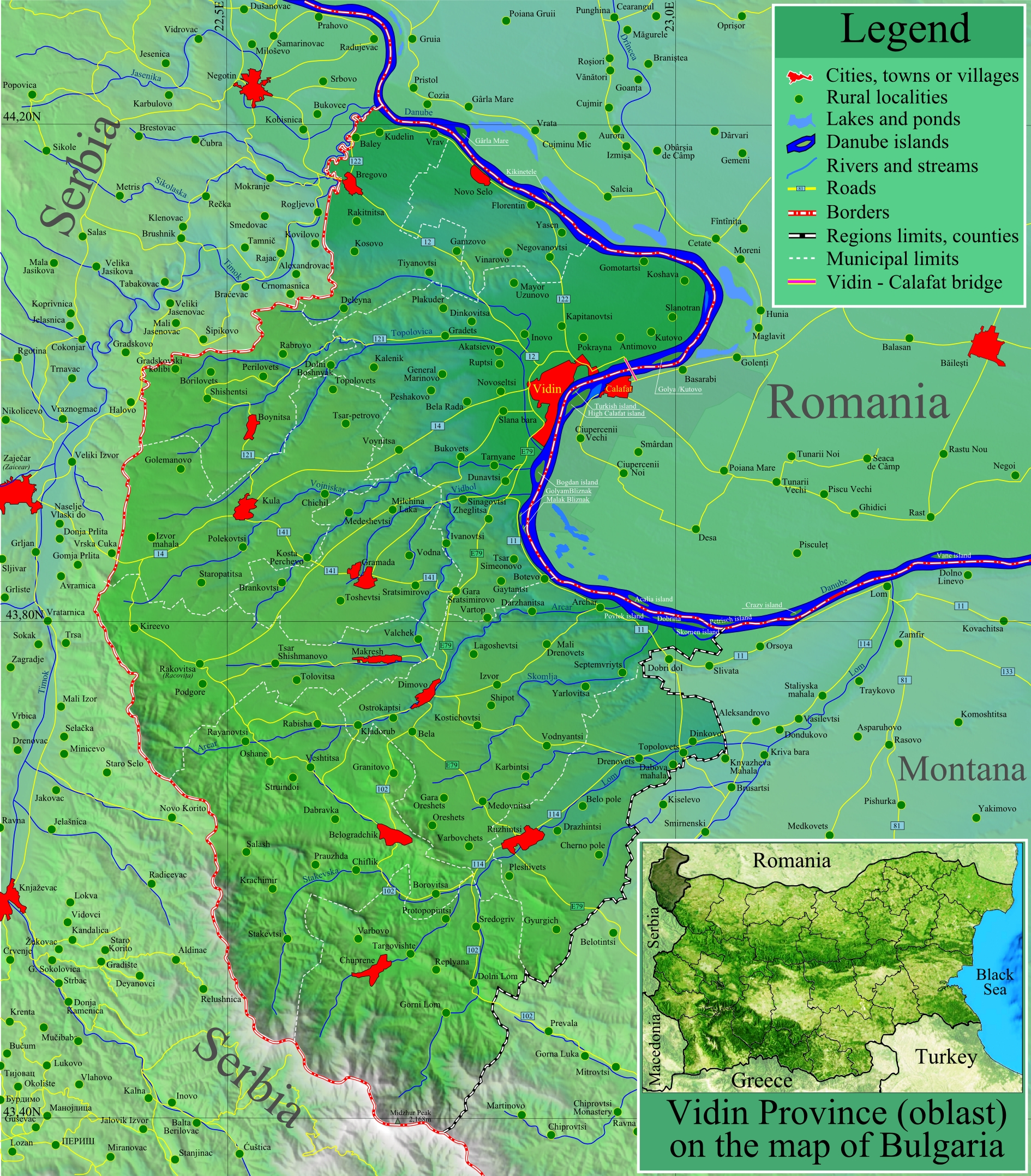 Map of Vidin Province — the former Vidin District or Vidin okrug (pre-1999) — of Bulgaria.